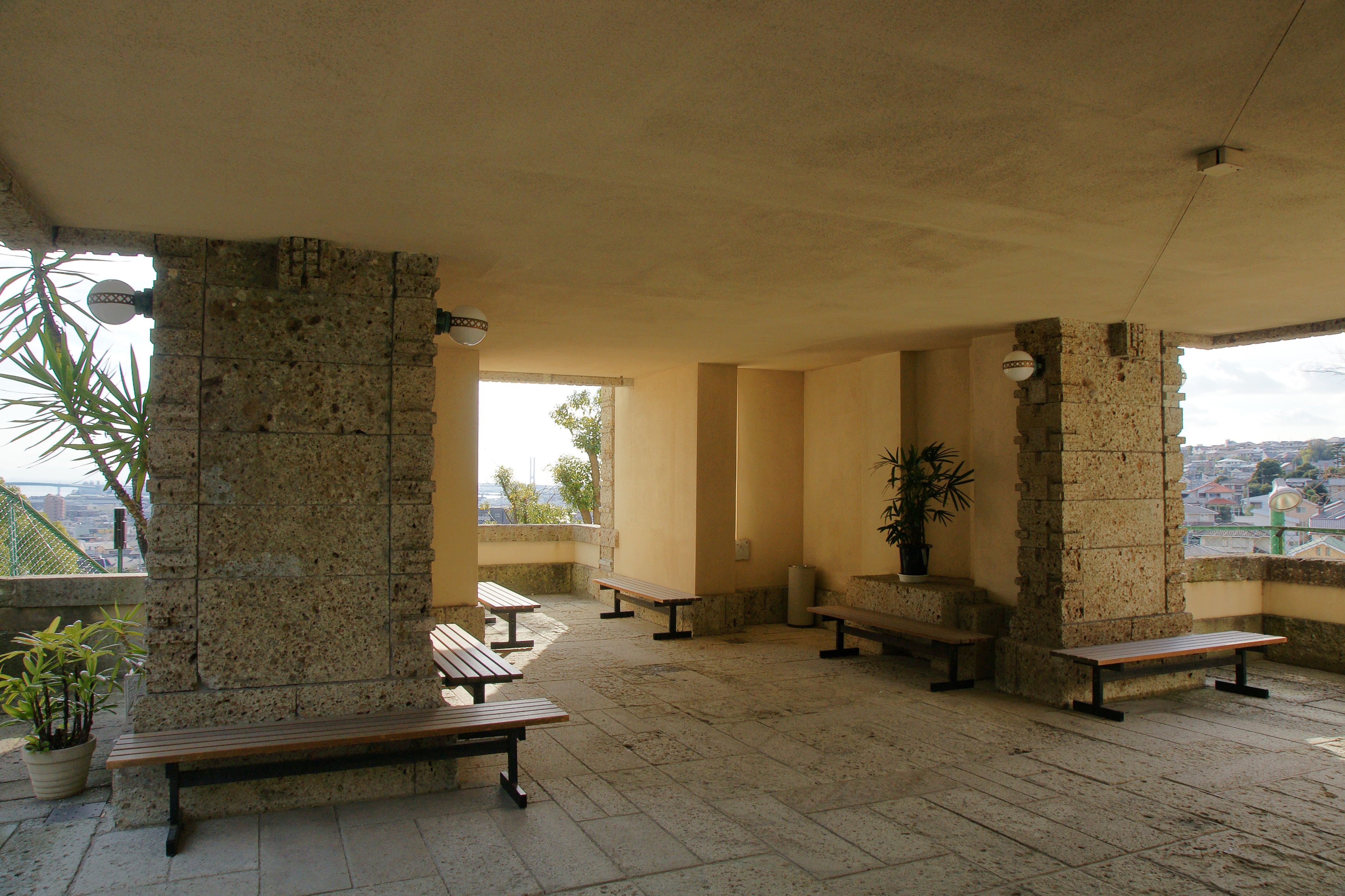 Yodoko Guest House (Yamamura House), Ashiya, Hyogo prefecture, Japan